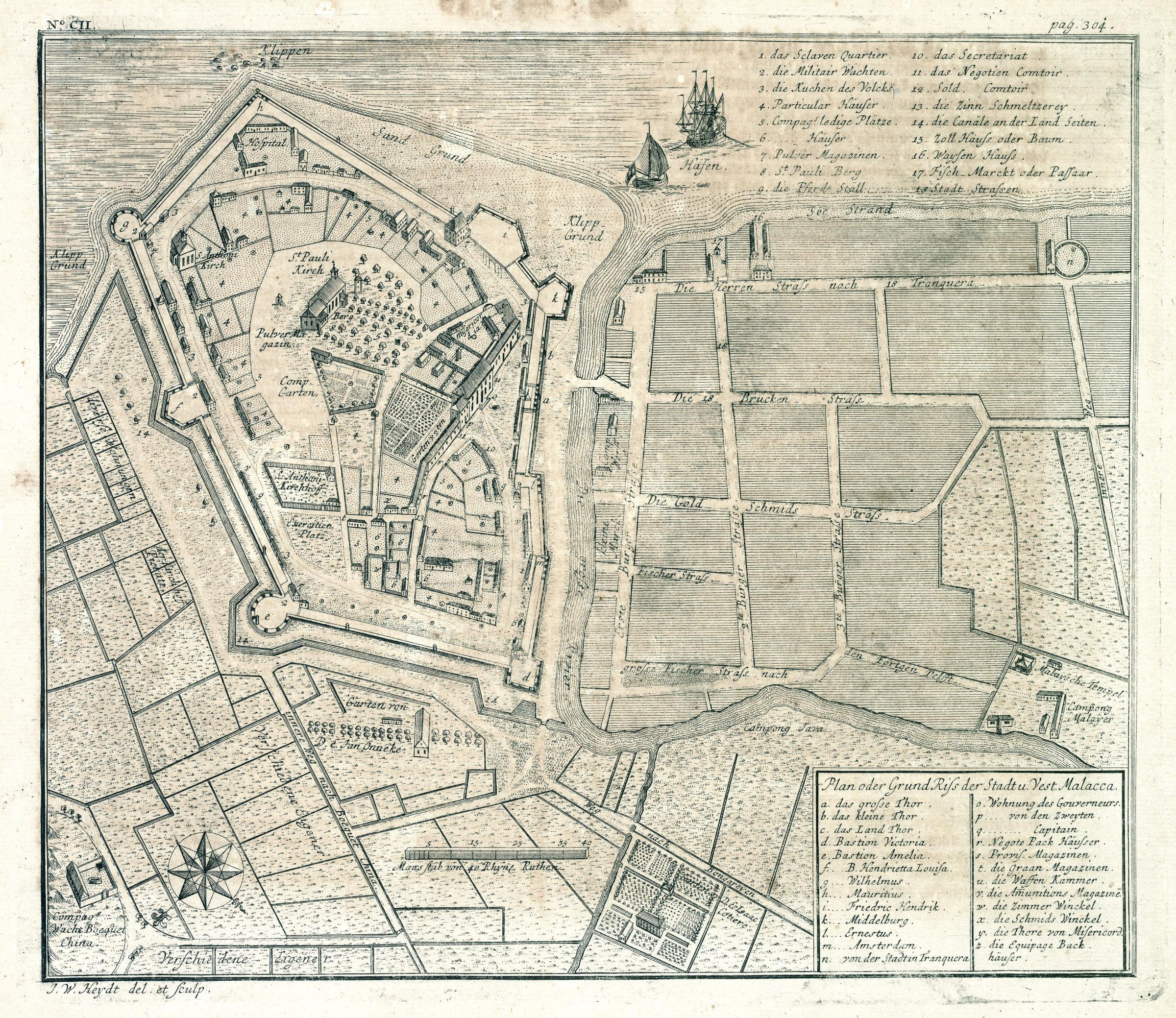 Map of Malakka. Plan oder Grund Riss der Stadt u. Vest. Malacca. Top left: No: CII. Top right: pag. 304. Key top: 1. das Sclaven Quartier. / 2. die Militair Wachten. / 3. die Kuchen des Volcks. / 4. Particular Häuser. / 5. Compag:s ledige Plätze. / 6. ... Häuser. / 7. Pulver Magazinen. / 8. St. Pauli Berg. / 9. die Pferd-Ställ. / 10. das Secratariat. / 11. das Negotien Comptoir. / 12. Sold. Comtoir. / 13. die Zinn Schmeltzerey. / 14. die Canäle an der Land Seiten. / 15 Zoll Hauss oder Baum. / 16 Waysen Hauss. / 17. Fisch-Marckt oder Passaar. / 18. Stadt Strassen . Key down: a. das grosse Thor. / b. das kleine Thor. / c. das Land Thor. / d. Bastion Victoria. / e. Bastion Amelia. / f. ... B. Hendrietta Louisa. / g. ... Wilhelmus. / h. ... Mauritius. / i. ... Friedric Hendrik. / k. ... Middelburg. / l. ... Ernestus. / m. ... Amsterdam. / n: von der Stadt in Tranquera. / o. Wohnung des Gouverneurs. / p. ... vond den Zweyten. / q. ... Capitain. / r. Negote Pack Häusser. / s. Provis. Magazinen. / t. die Graan Magazinen. / u. die Waffen Kammer. / v. die Ammunitions Magazine. / w. die Zimmer Winckel. / x. die Schmids Winckel. / y. die Thore von Misericord. / z. die Equipage Backhäuser.